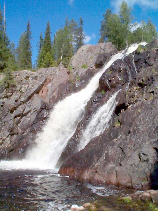 Hepoköngäs waterfall in Puolanka, Finland